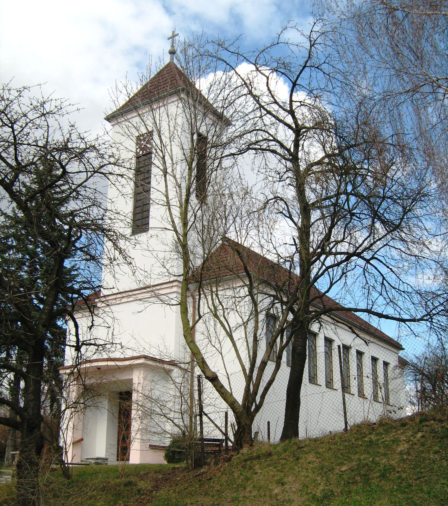 Chapel of ease of St. Florian built in 1946 in Proskovice. Česky: Filiální kostel sv. Floriána v Proskovicích dostavěný roku 1946.